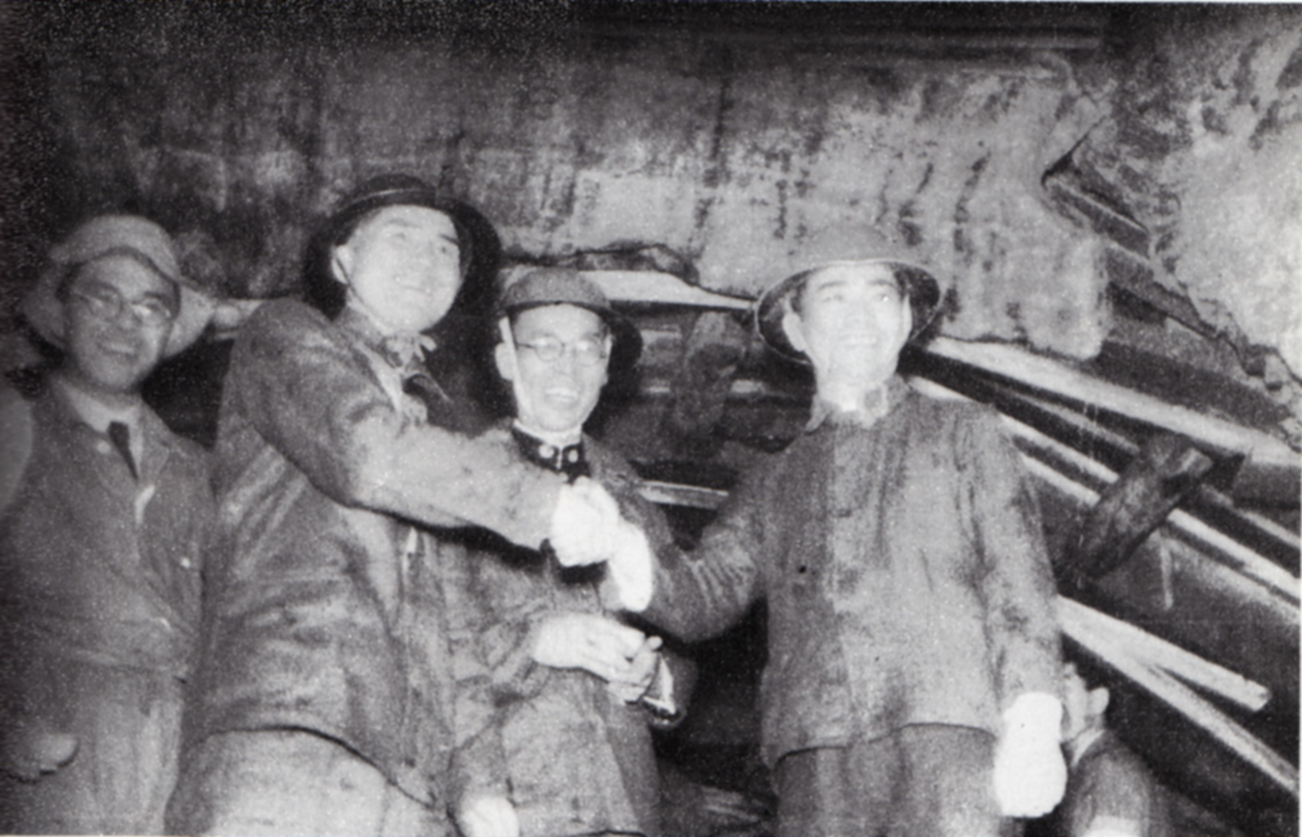 Staffs hand shaking at the break through ceremony of Kyushu-bound track of Kammon railway tunnel. From left to right, SAKAMOTO Sadao, OGINO Shotaro, KANO Kenji, KOSAKA Shiro